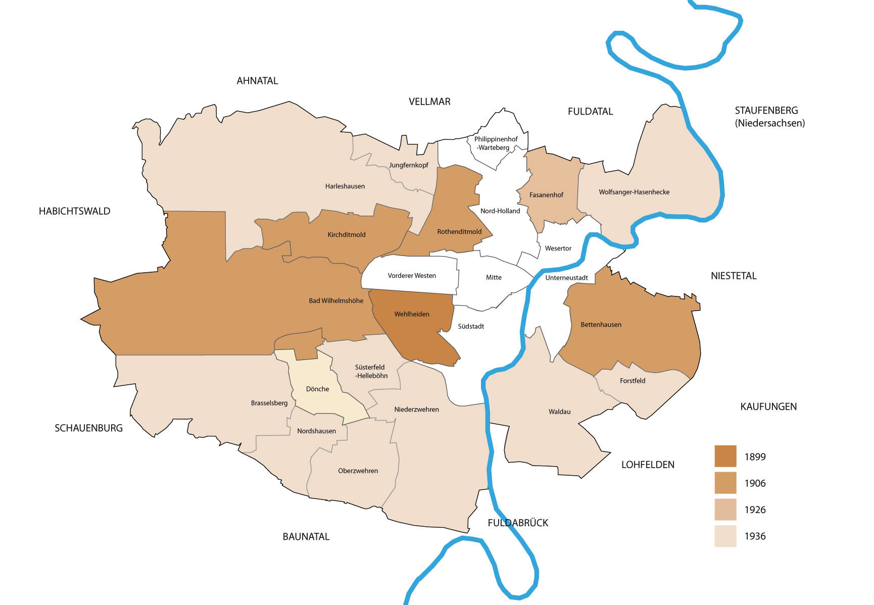 Kassel Eingemeindungen